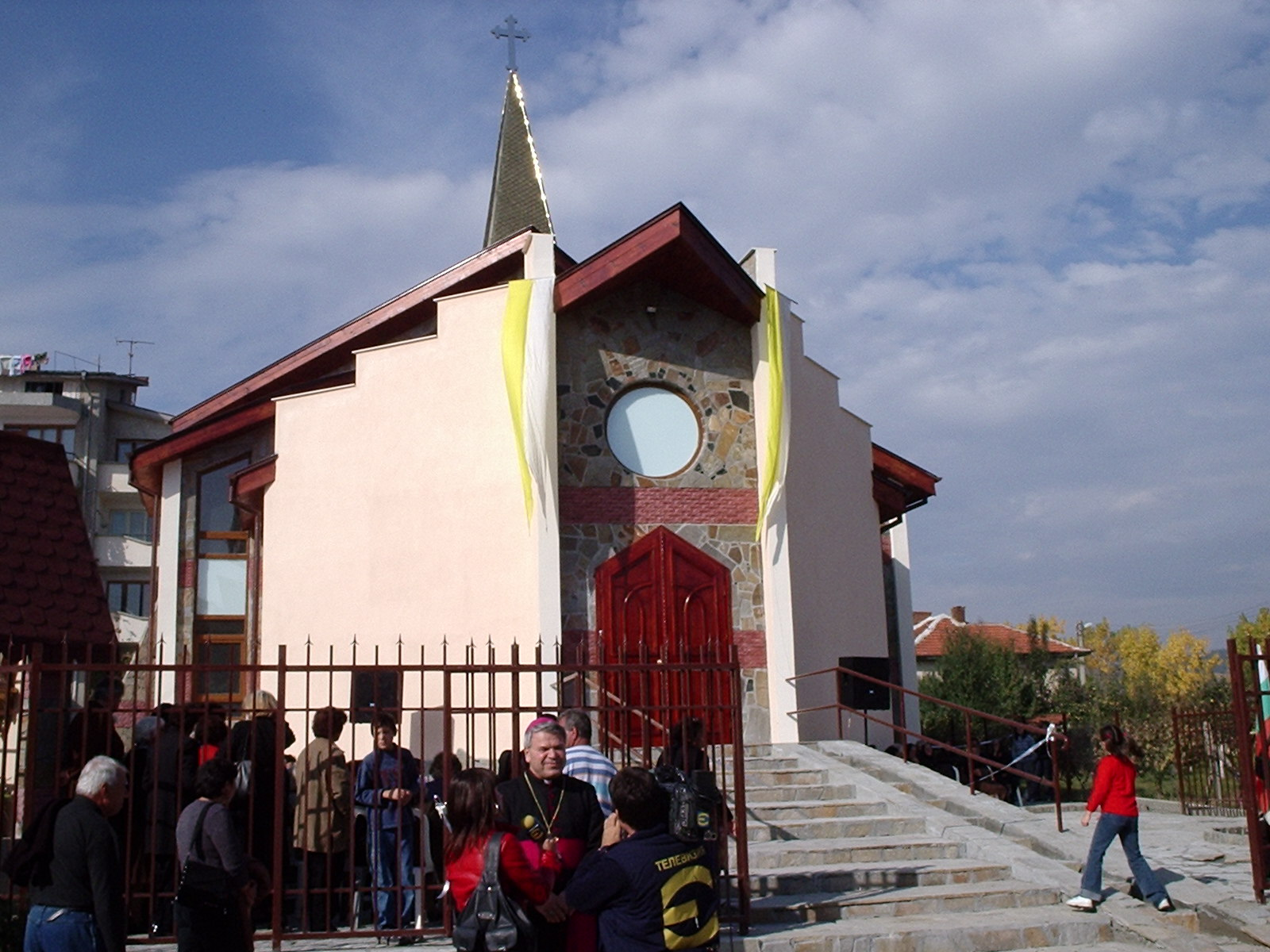 Catholic church in Hissarya, Bulgaria